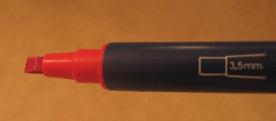 Detail of felt tipped calligraphy pen.